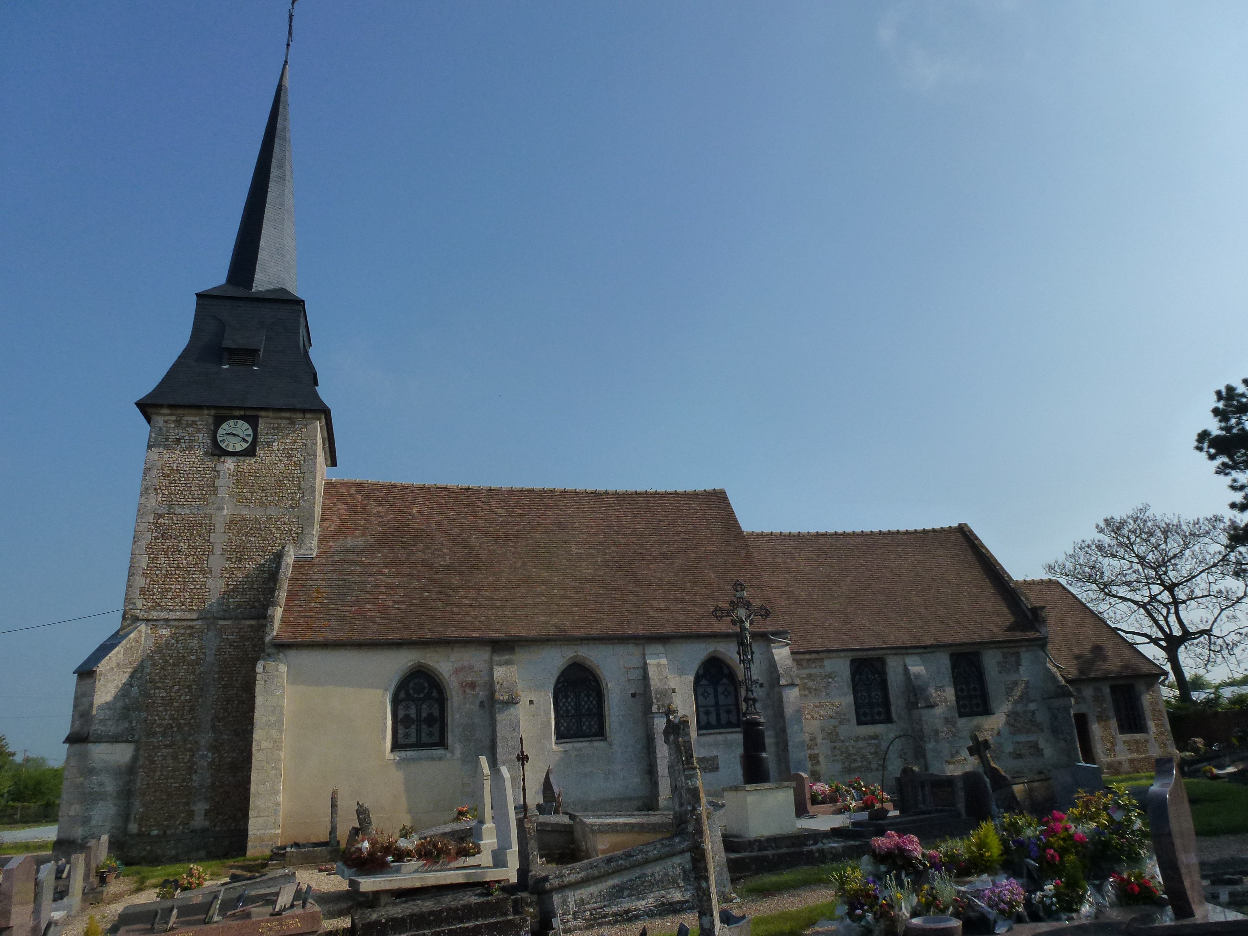 Villez-sur-le-Neubourg (Eure, Fr) église de la Sainte-Trinité.